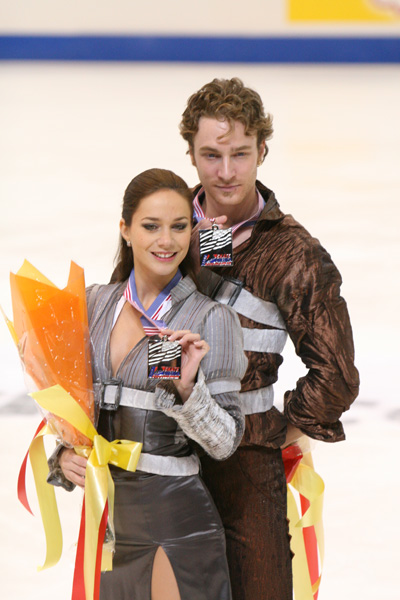 2007 Skate America - Nathalie Péchalat and Fabian Bourzat